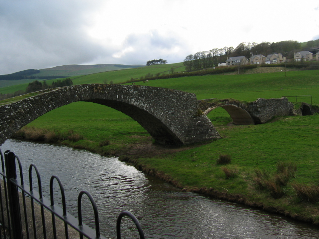 Packhorse bridge over Gala Water at Stow of Wedale in the Scottish Borders region